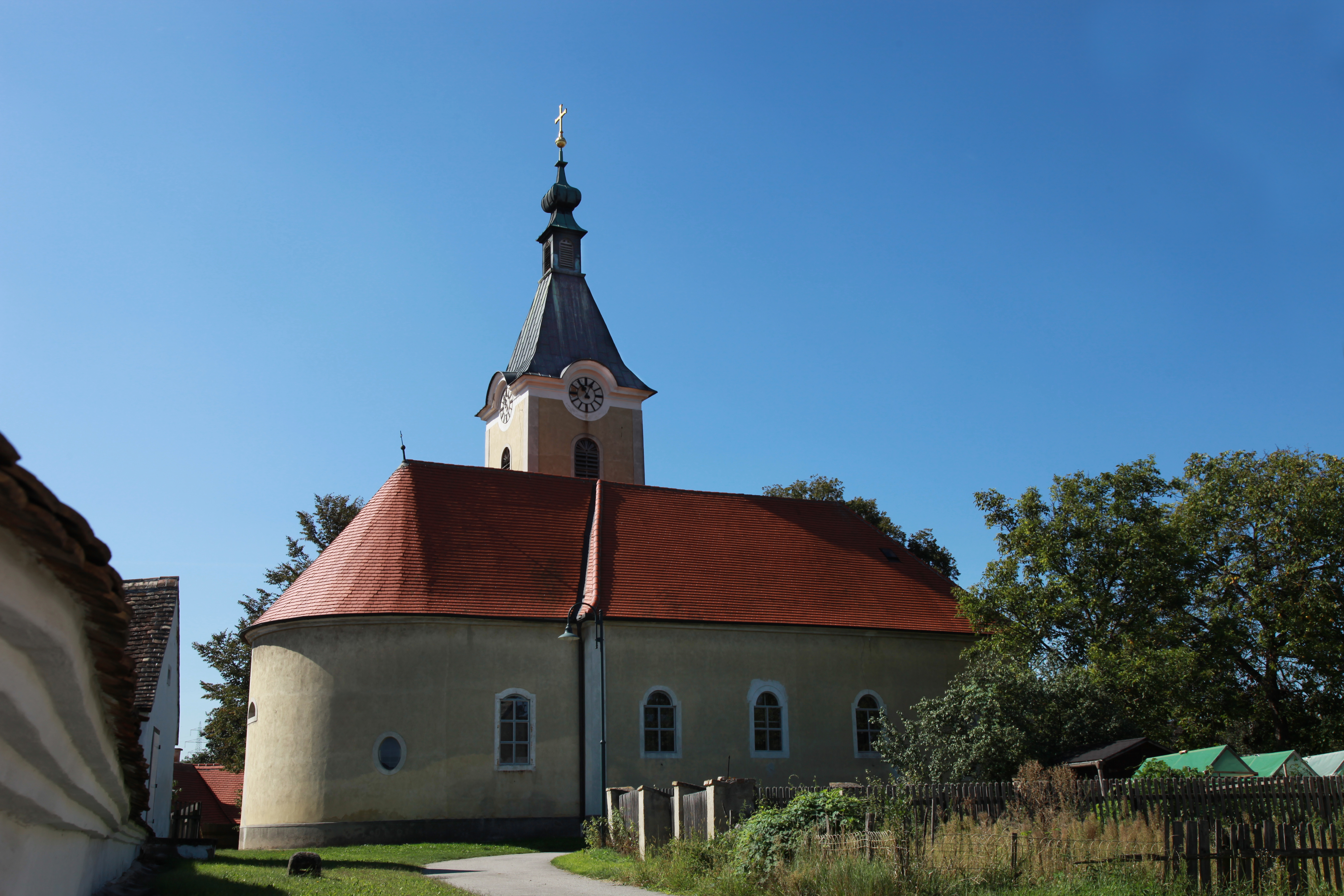 katholische Pfarrkirche heiliger Johannes der Täufer